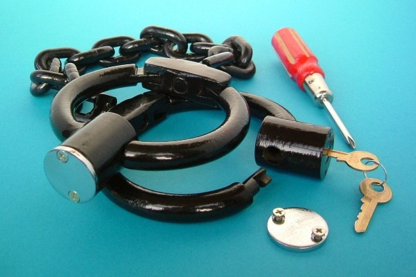 Legirons from China